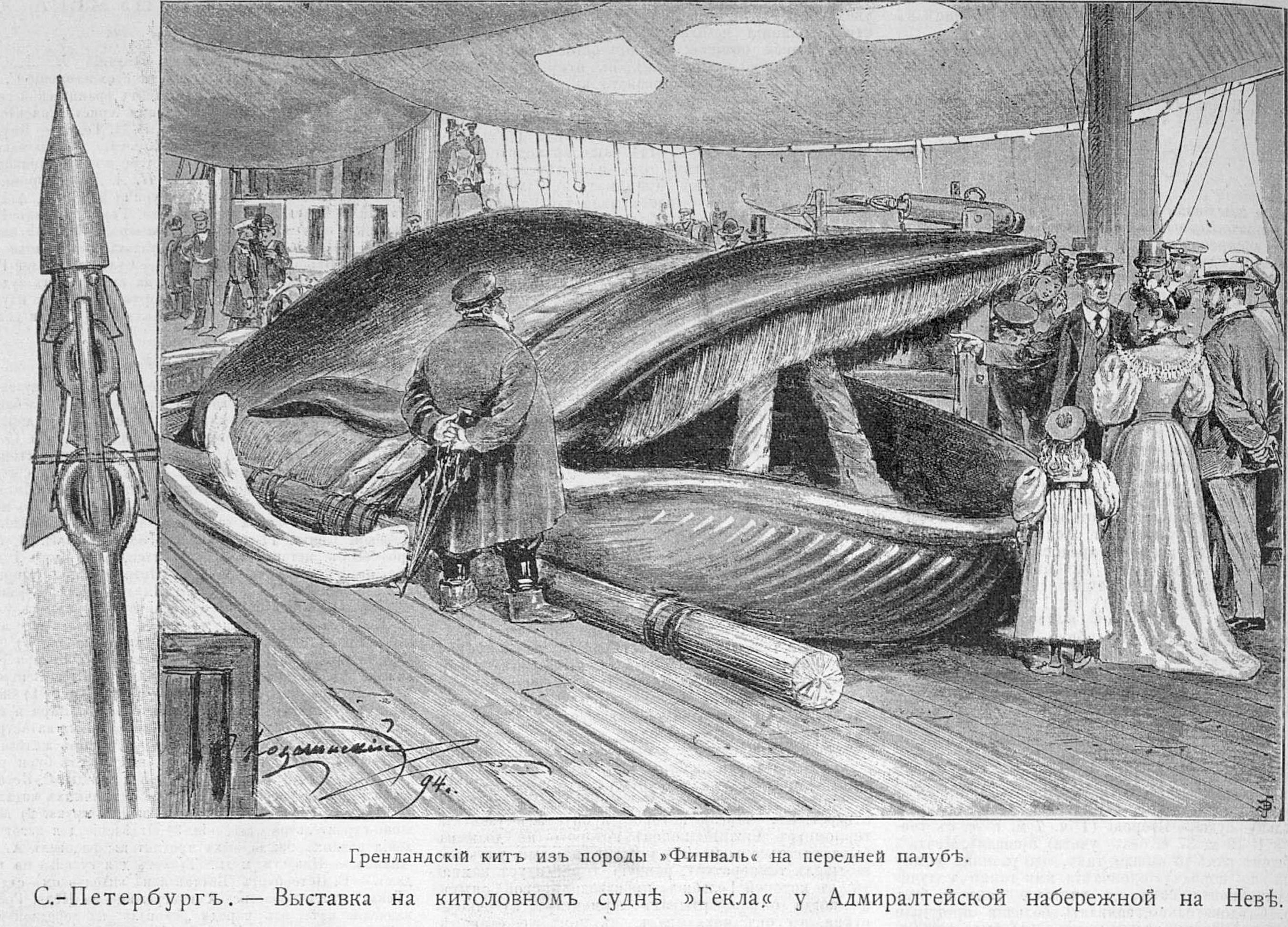 Greenlandic whale of the "Finwhale" breed on the foredeck. St. Petersburg. - Exhibition on the whaling vessel Hecla at the Admiralty Embankment on the Neva. (approximate translation of caption)